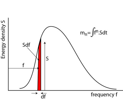 explanantion of a spectral moment Bases of the red trapezoid-like shape are not parallel – namely, the left (shorter) base is noticeably slanted.